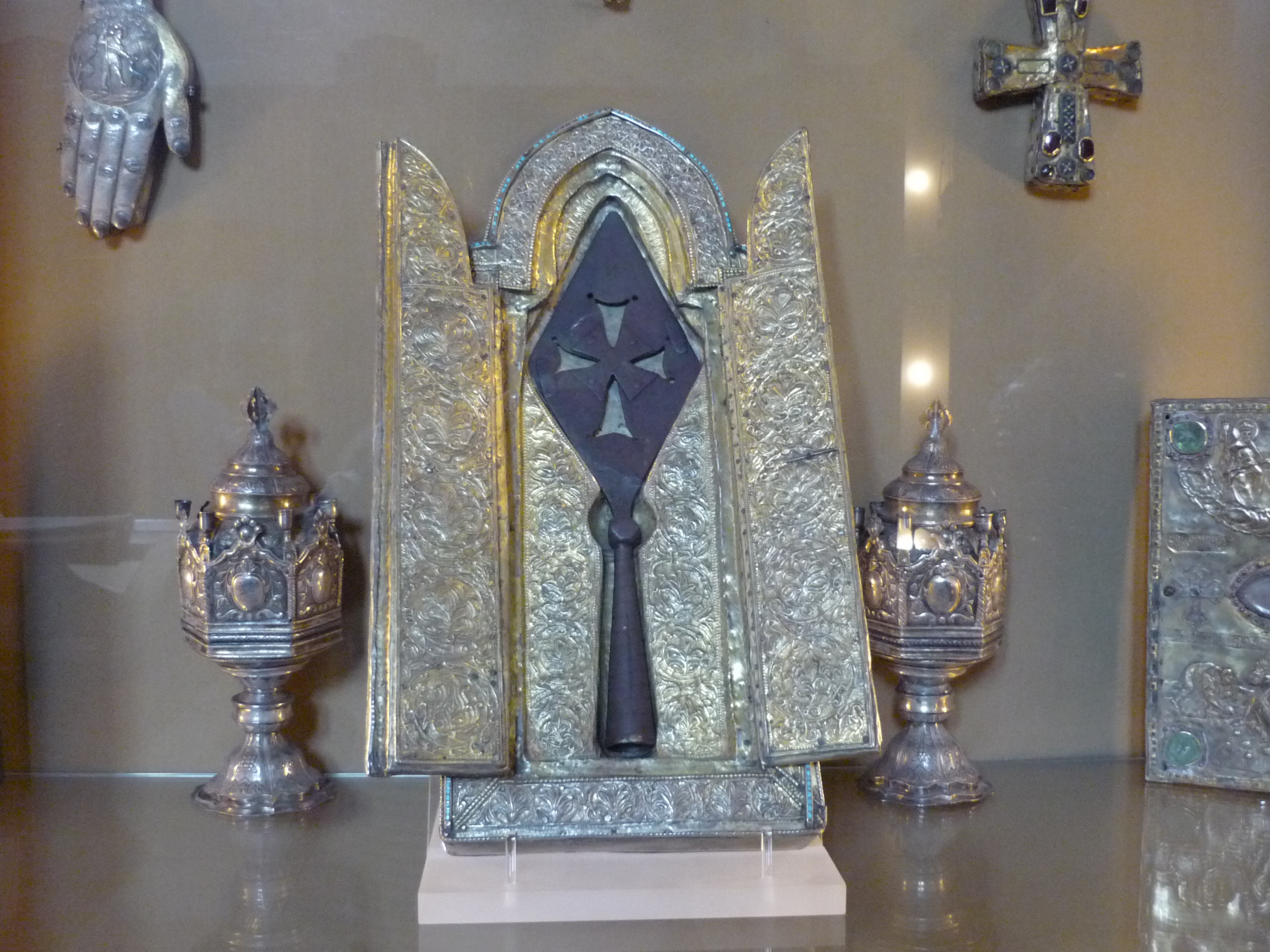 The lance currently in Echmiadzin, Armenia. It was discovered during the First Crusade in St. Peter's Cathedral in Antioch.